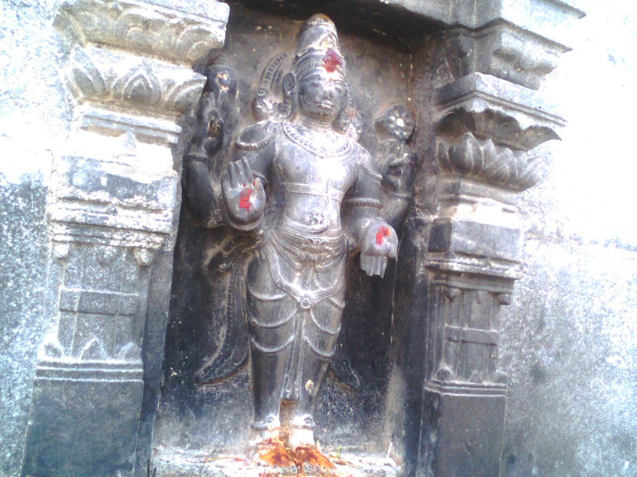 Srikurmam temple near Srikakulam, Andhra Pradesh